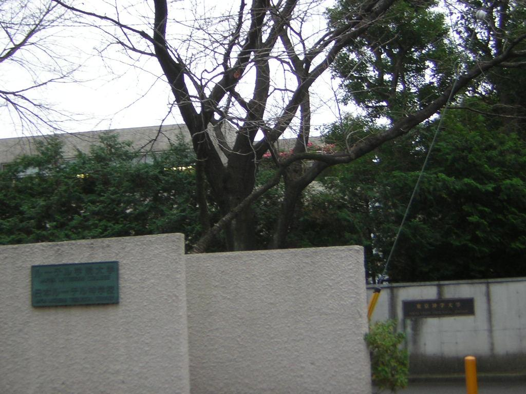 Tokyo Union Theological Seminary and Japan Lutheran College